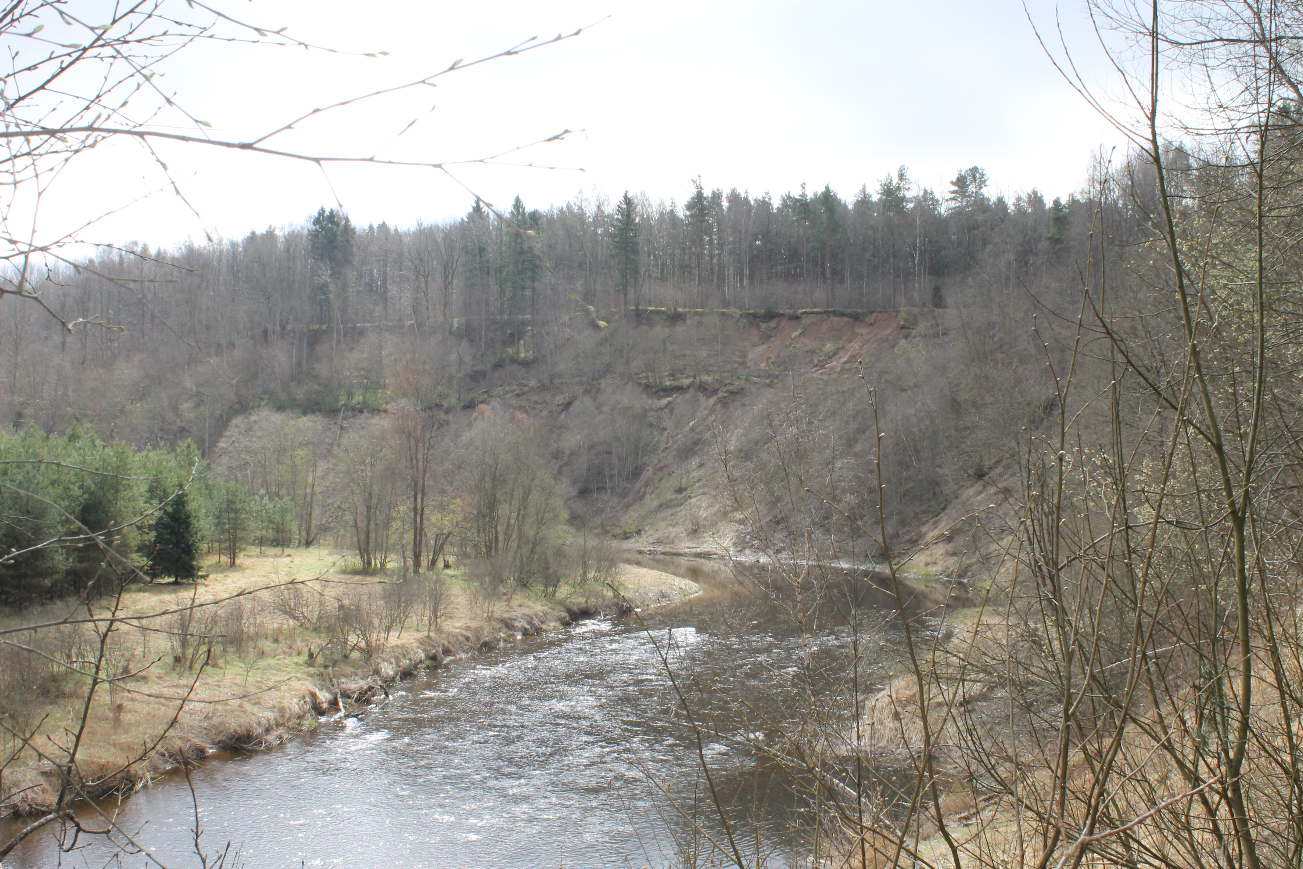 Dauginčiai, Kretinga district, LithuaniaLietuvių: Dauginčių atodanga, Kretingos rajonas, Lietuva